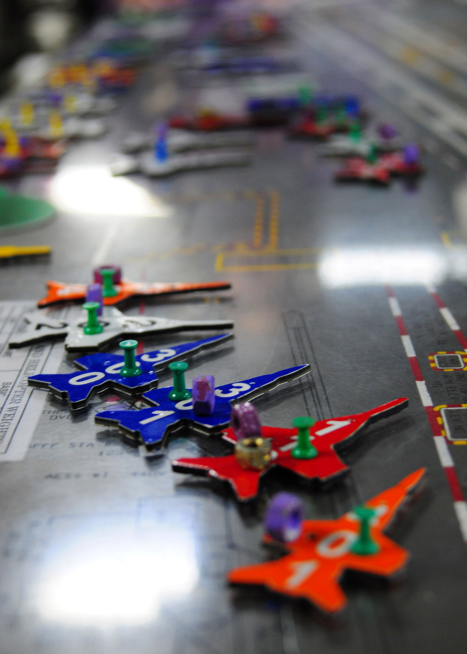 PACIFIC OCEAN (Dec. 19, 2010) Sailors position aircraft markers on the Ouija board during a simulated general quarters drill aboard the aircraft carrier USS Carl Vinson (CVN 70). Carl Vinson and Carrier Air Wing (CVW) 17 are on a three-week composite training unit exercise followed by a deployment to the U.S. 7th and 5th Fleet areas of responsibility. (U.S. Navy photo by Mass Communication Specialist 2nd Class Adrian T. White/Released)